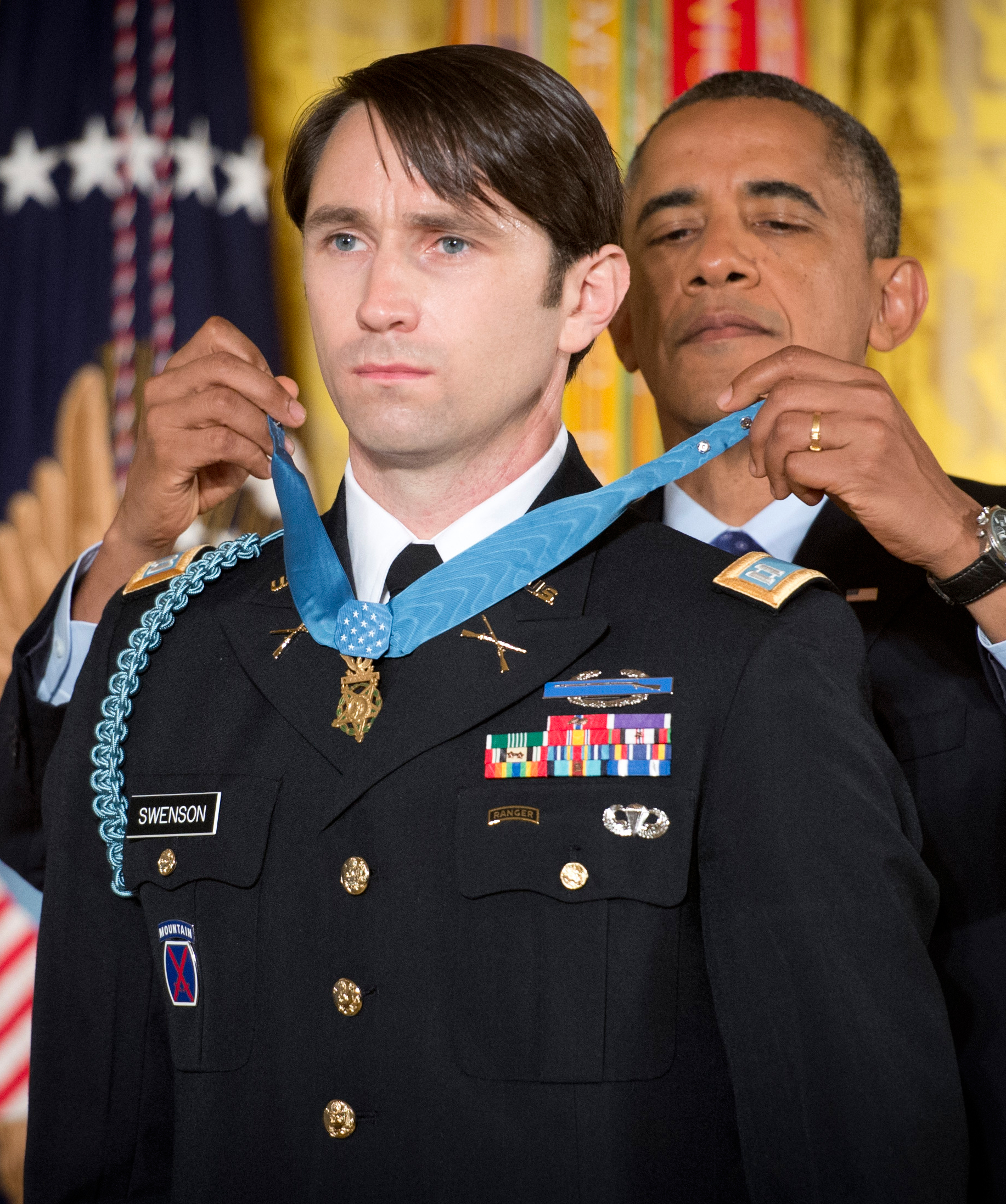 From original source: "During a ceremony at the White House, President Barack Obama awards former U.S. Army Capt. William D. Swenson the Medal of Honor. Swenson received the Nation's highest honor for his courageous actions while serving as an embedded advisor to the Afghan National Border Police, Task Force Phoenix, Combined Security Transition Command-Afghanistan in support of 1st Battalion, 32nd Infantry Regiment, 3rd Brigade Combat Team, 10th Mountain Division, during combat operations against an armed enemy in Kunar Province, Afghanistan on September 8, 2009. He is the sixth living recipient and the first officer to be awarded the Medal of Honor for actions in Iraq or Afghanistan. (U.S. Army photo by Staff Sgt. Bernardo Fuller)"